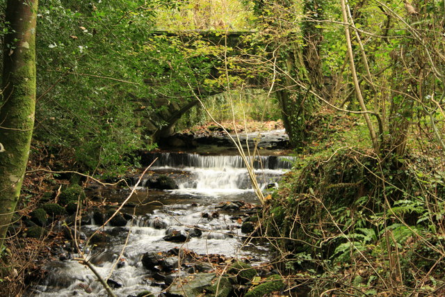 River Ashburn The Ashburn flowing under the bridge near Waterleat Farm.